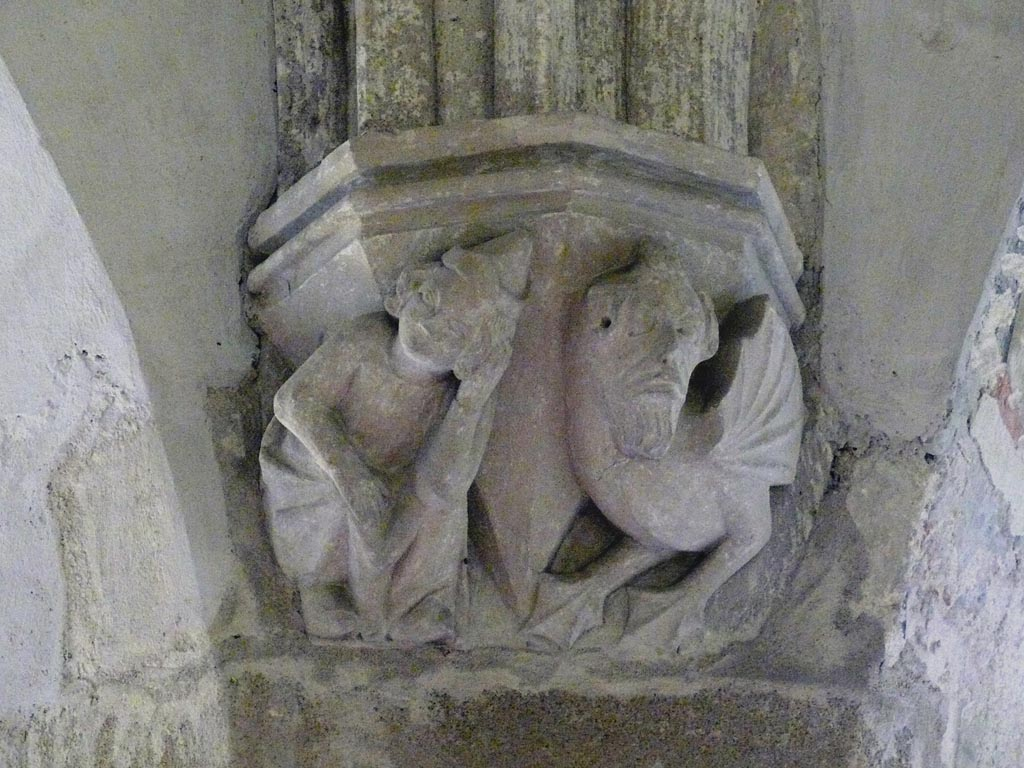 Goat Church, chapter house - seven deadly sins: acedia (sloth)